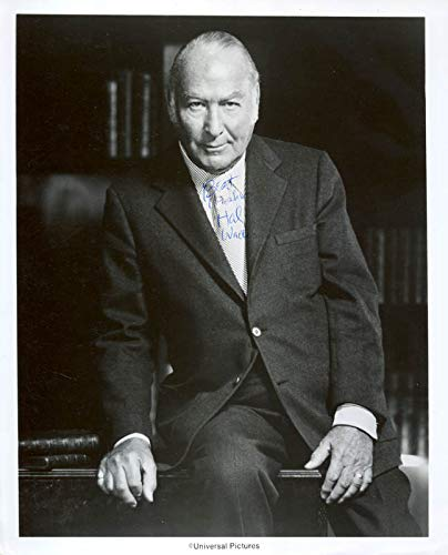 Hal B. Wallis. Black and white publicity photograph from Universal Pictures, signed on the tie area of his suit Photograph signed: "Best/Wishes/Hal/Wallis". B/w, 8x10